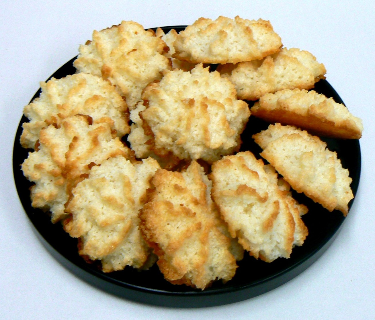 Macaroons on a plate.